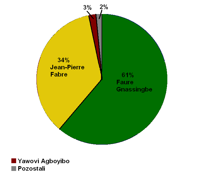 Togo presidential election's results, 2010.